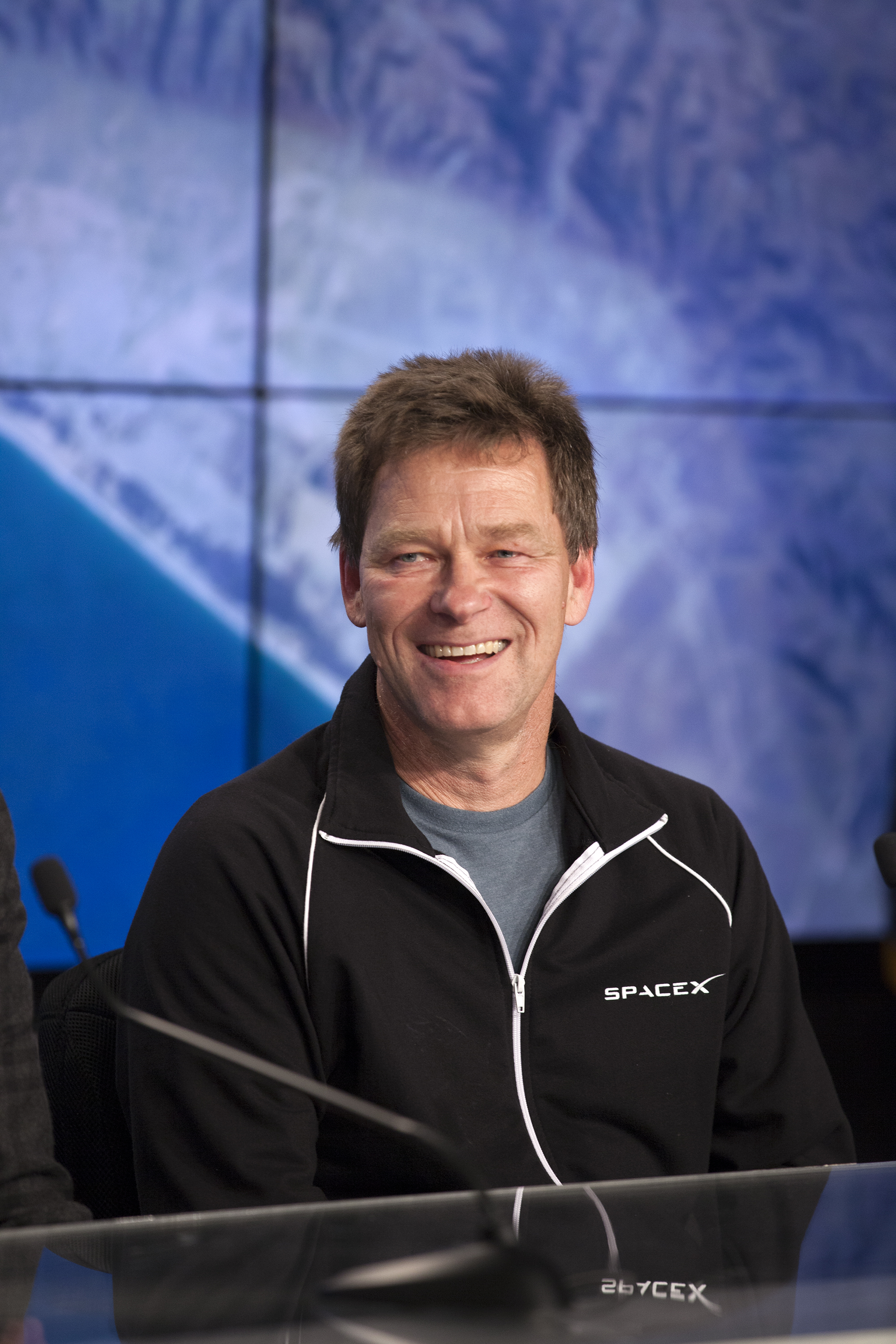 In the Press Site auditorium of NASA's Kennedy Space Center in Florida, Hans Koenigsmann, SpaceX vice president of Mission Assurance, speaks to the media at a post-launch news conference following the liftoff of SpaceX CRS-8, a commercial resupply services mission to the International Space Station, or ISS. SpaceX CRS-8 lifted off atop a Falcon 9 rocket from Space Launch Complex 40 at Cape Canaveral Air Force Station at 4:43 p.m. EDT. Photo credit: NASA/Kim Shiflett